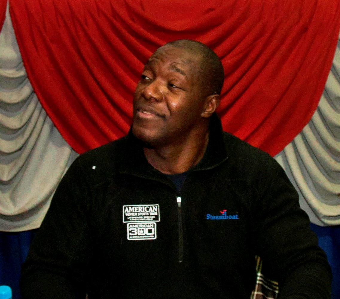 2/14/2013 - Devon Harris, three-time bobsled Olympian, greets troops at the Transit Center at Manas, Kyrgyzstan, Feb. 13, 2013. Harris, who now travels the world as a motivational speaker, shared his Olympic experience with troops during a brief visit to the Transit Center.